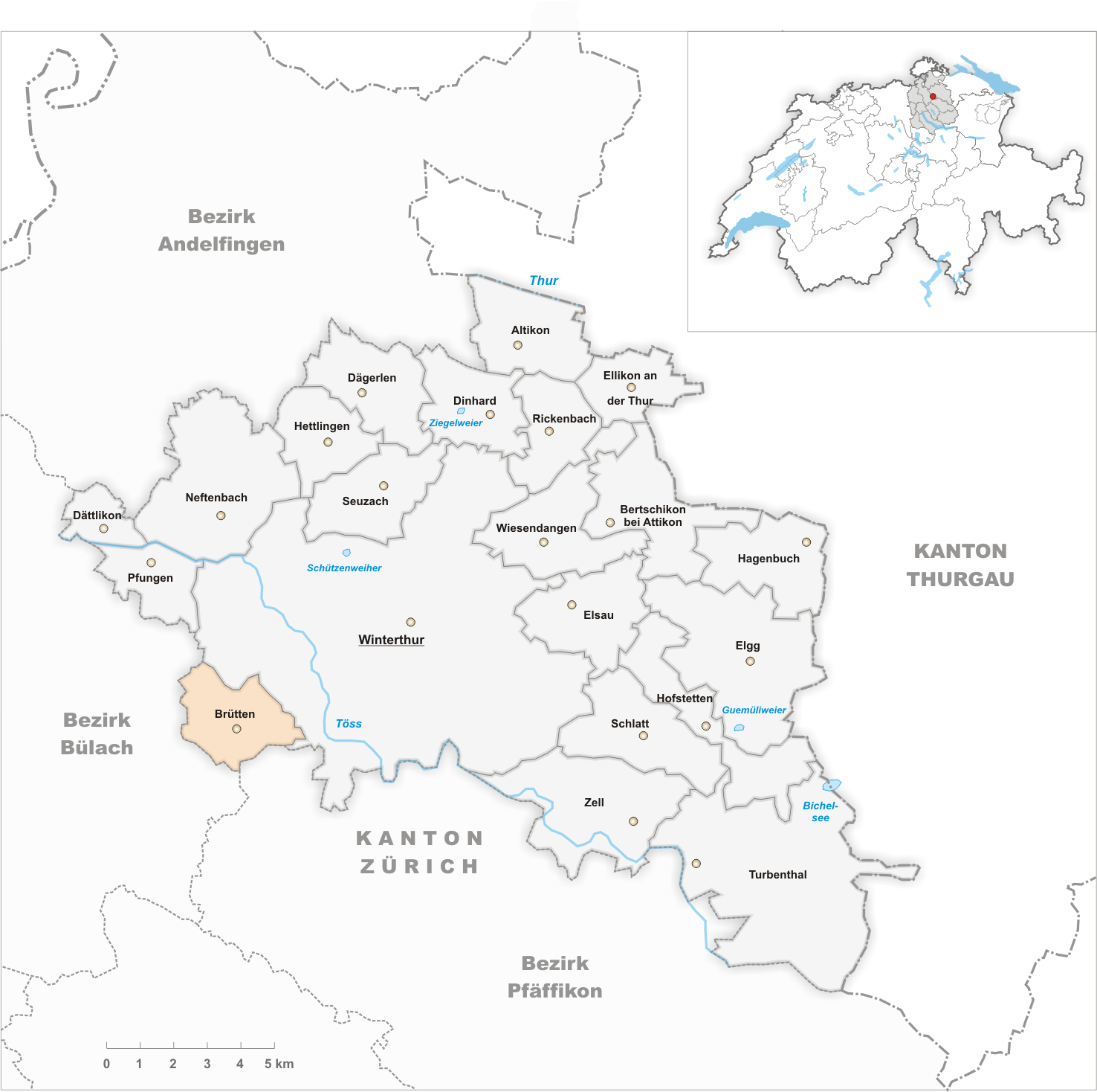 Municipality Brütten